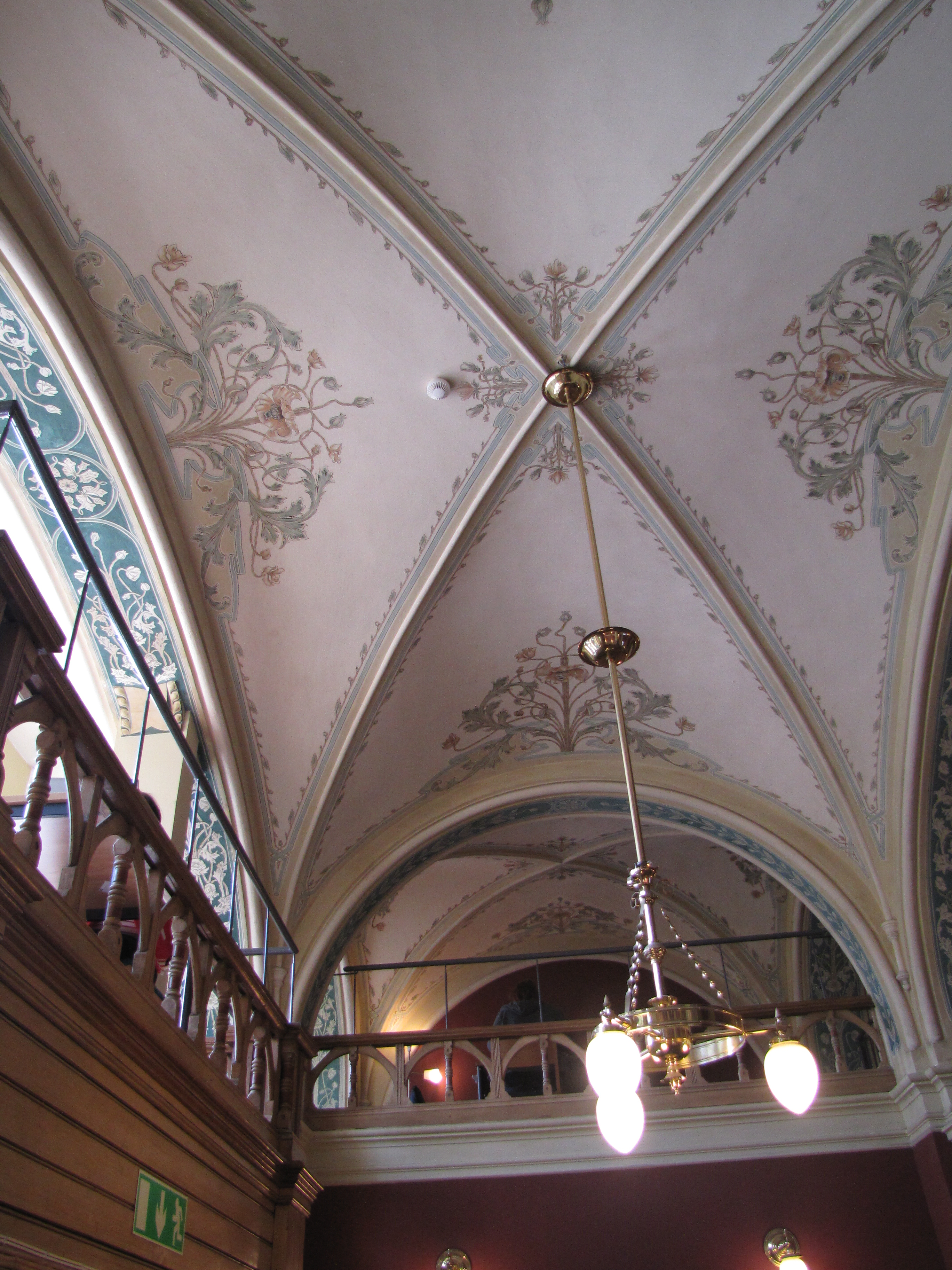 The former town library of Göteborg, built 1900, now one of the libraries of the University, called "Kurs- och tidningsbiblioteket", which means the course book and newspaper library. Ceiling and balconies just inside the main entrance is showed.